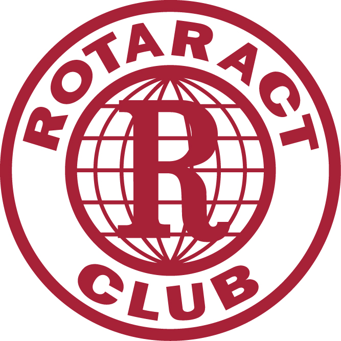 Rotaract logo